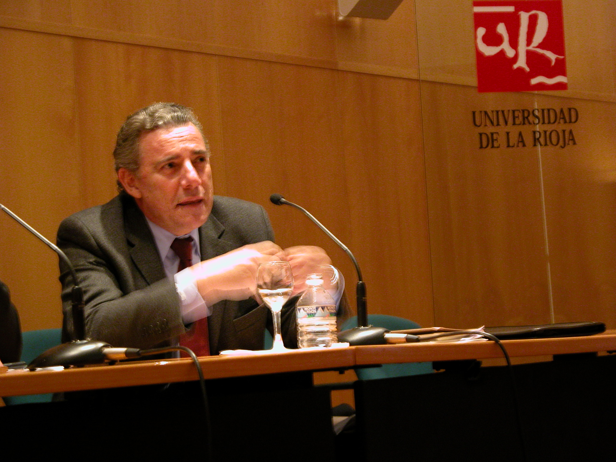 Alejandro Duque Amusco, in the University of La Rioja (Spain).